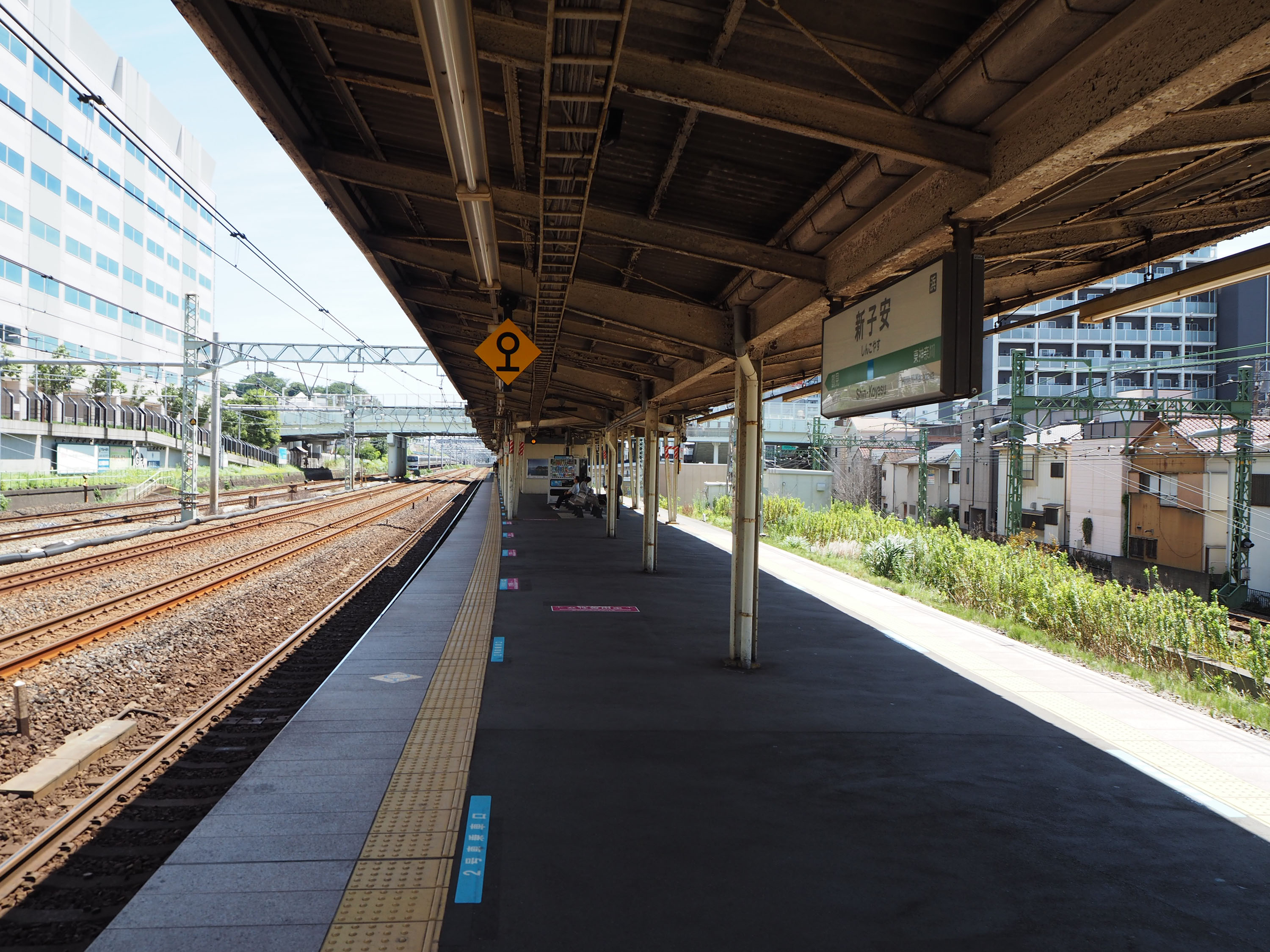 Shin-Koyasu Station